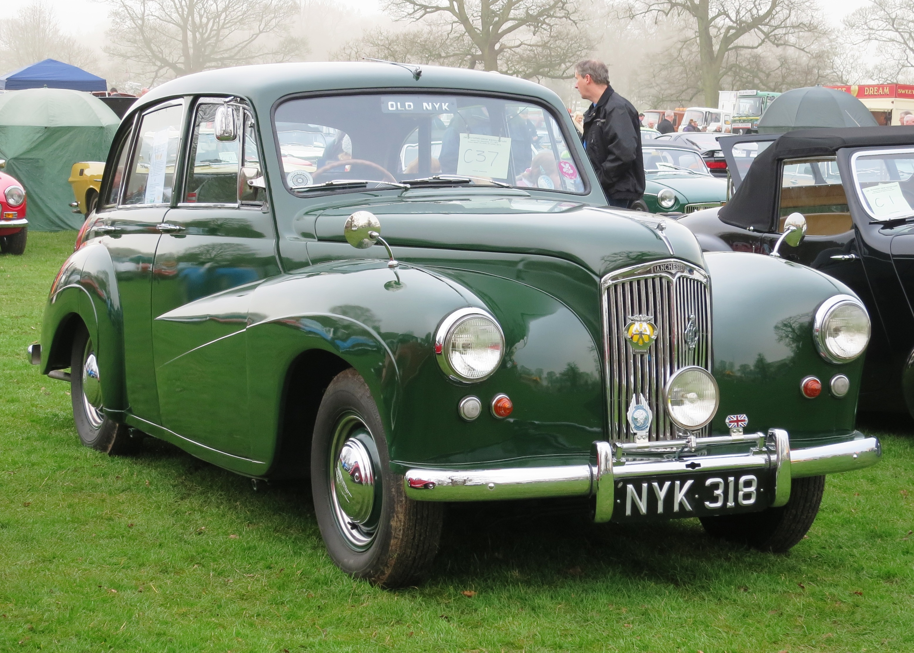 Lanchester Fourteen (1953) at Weston